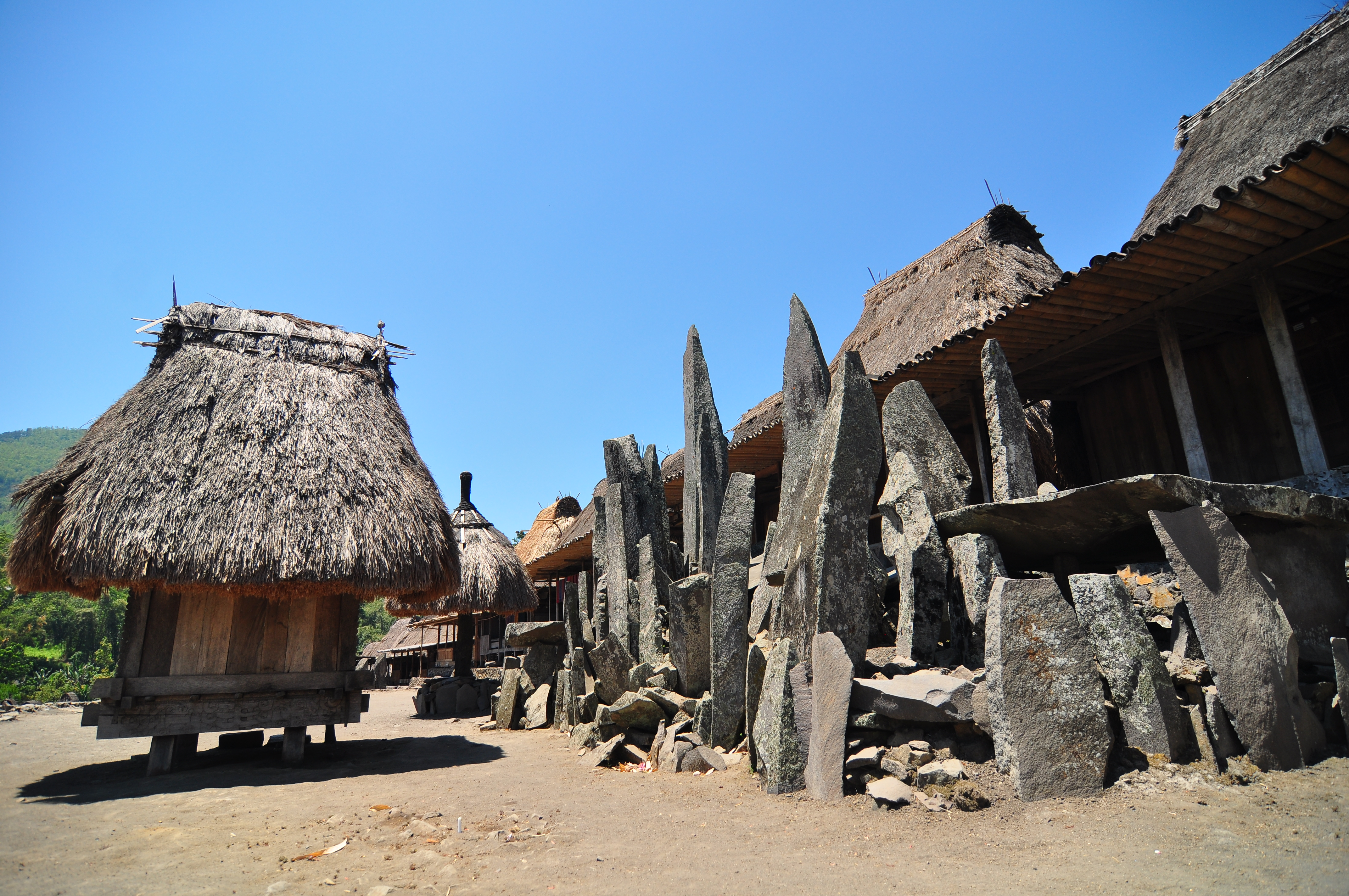 Ende Lio's tribal house for Keda and Kanga Ritual.